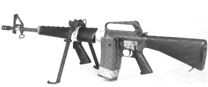 Rifle, 5.56mm XM106.